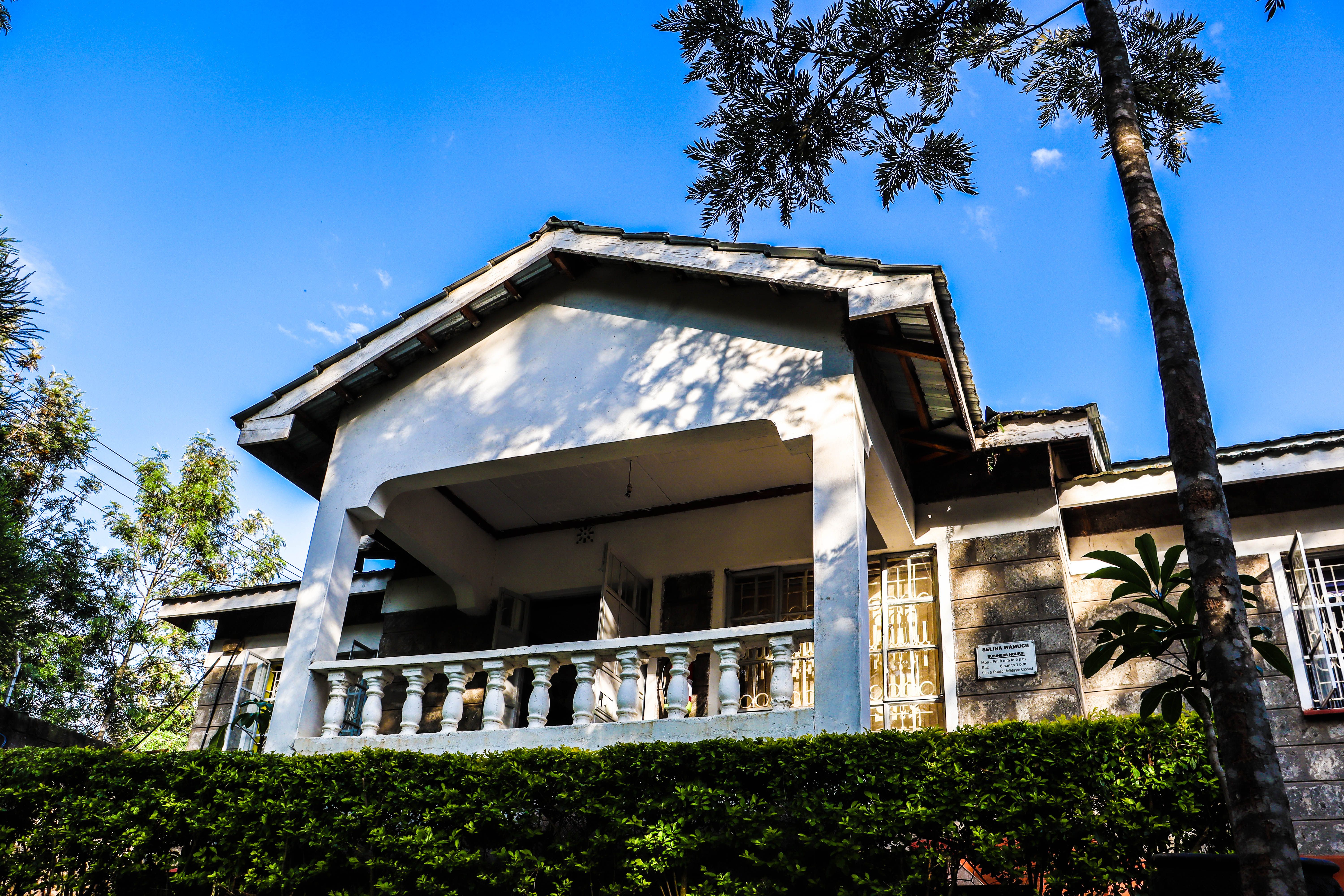 Selina Wamucii headquarters on January 2020